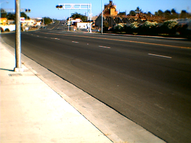 California State Route 29 near Ryder Street in Vallejo, California